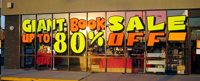 "I liked this hand-painted sign. They took an old Blockbuster and converted it into a book store." This photo was taken in Edmond, Oklahoma, US, using a Canon PowerShot SD300.